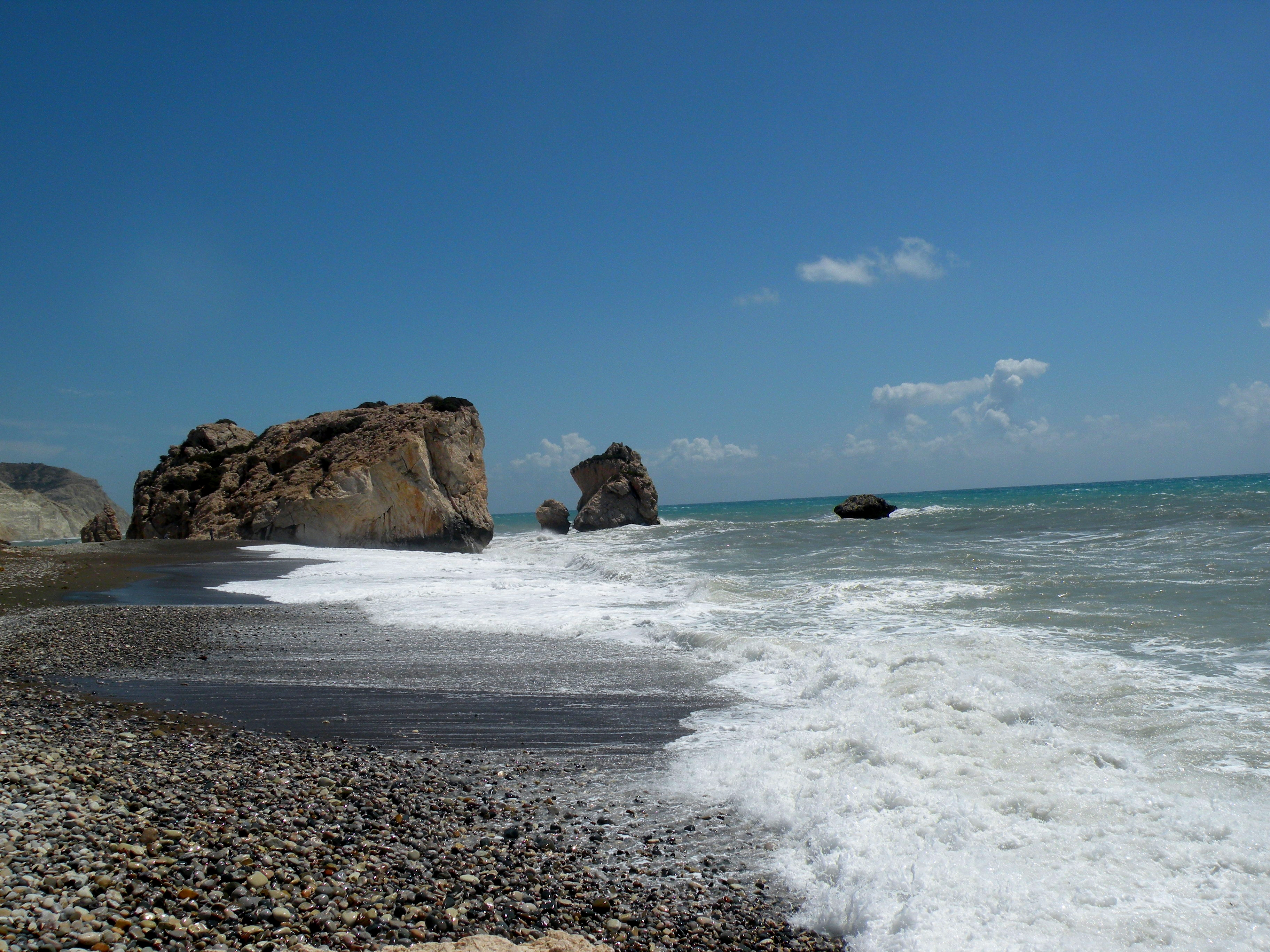 Aphrodites Rock - Cyprus